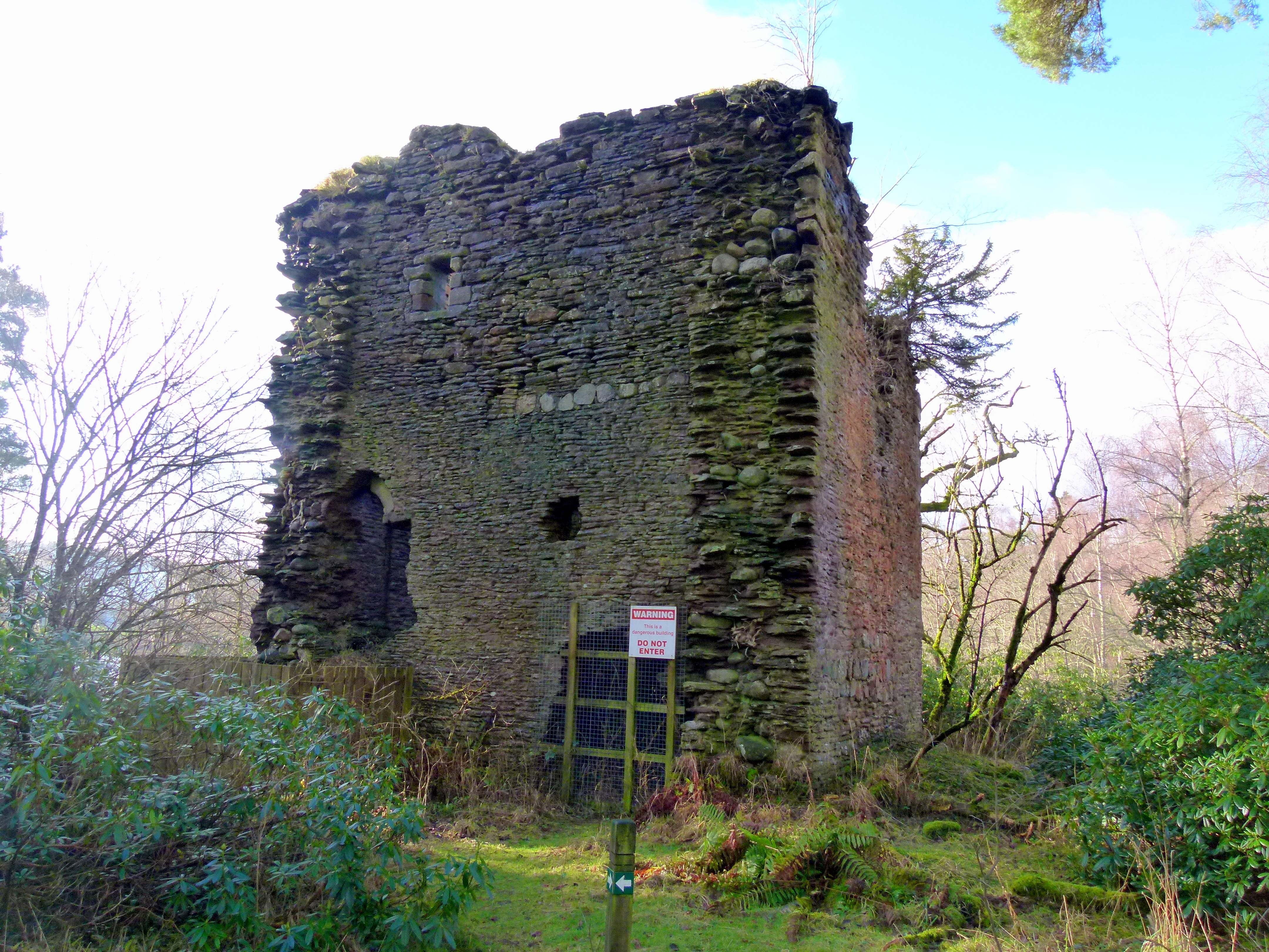 Remains of tower house, Castle Cluggy, which sits beside Loch Monzievaird. Definitely there in the 15th century, but may date from the 12th century.